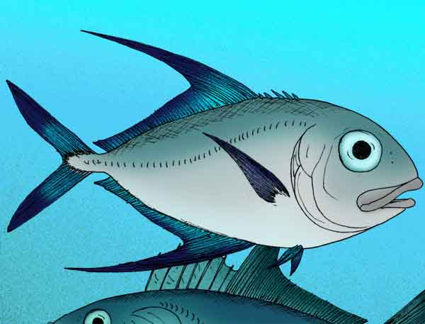 Reconstruction of the Messinian carangid, Pseudovomer minutus, from Upper Miocene Sicily.